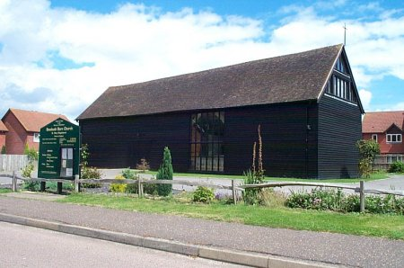 St Mary Magdalene parish church, Francis Edwards Way, Bewbush, Crawley, West Sussex. A 17th- or 18th-century wooden barn, converted into a parish church.